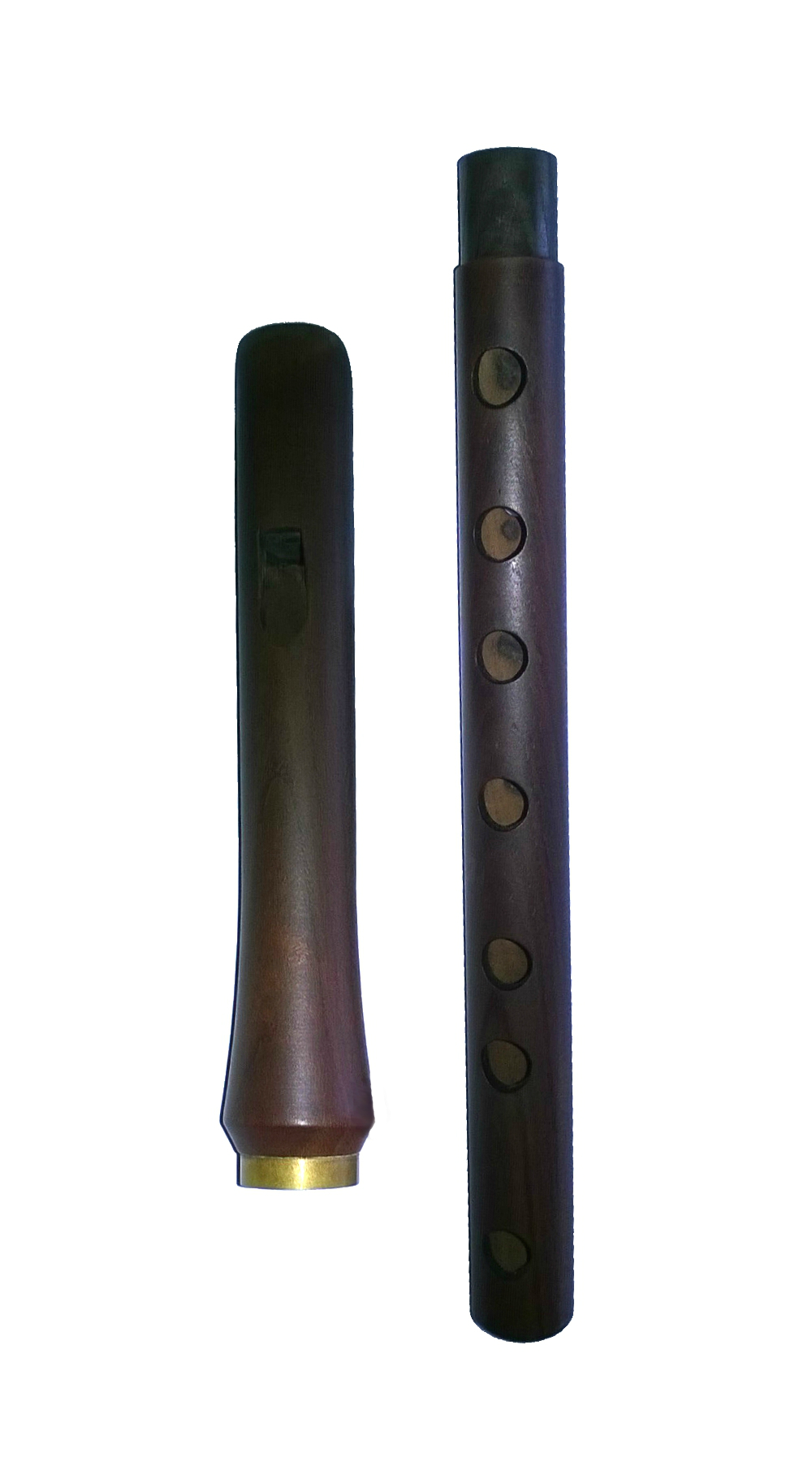 Շվին բաժանված երկու մասերի